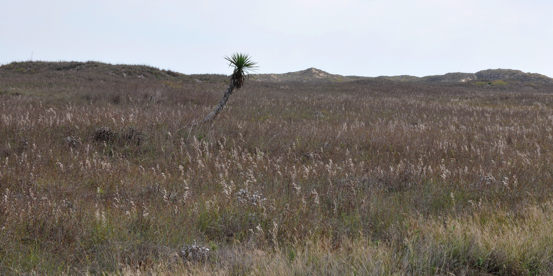 Padre Island National Seashore, Gulf coastal grassland and prairie habitat, Kleberg County, Texas, USA (27.4522°N, 97.2925°W, 2 m. elev.). Photographed on 26 November 2011. William L. Farr